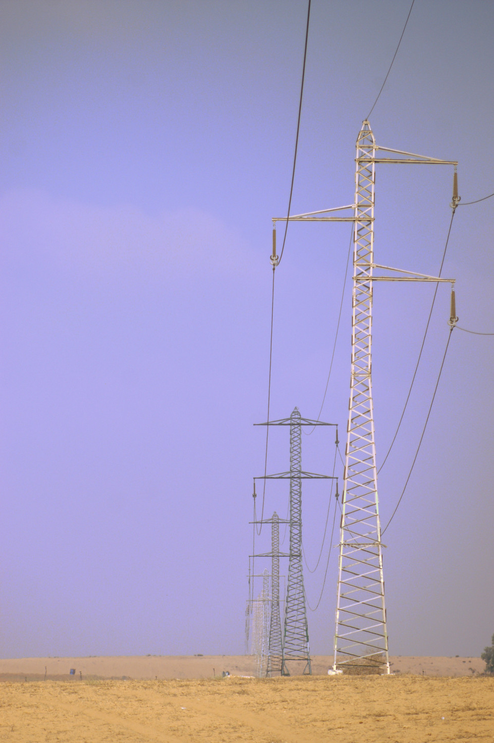 Electric pole in the Negev